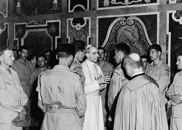 Members of the Royal 22e Regiment in audience with Pope Pius XII.